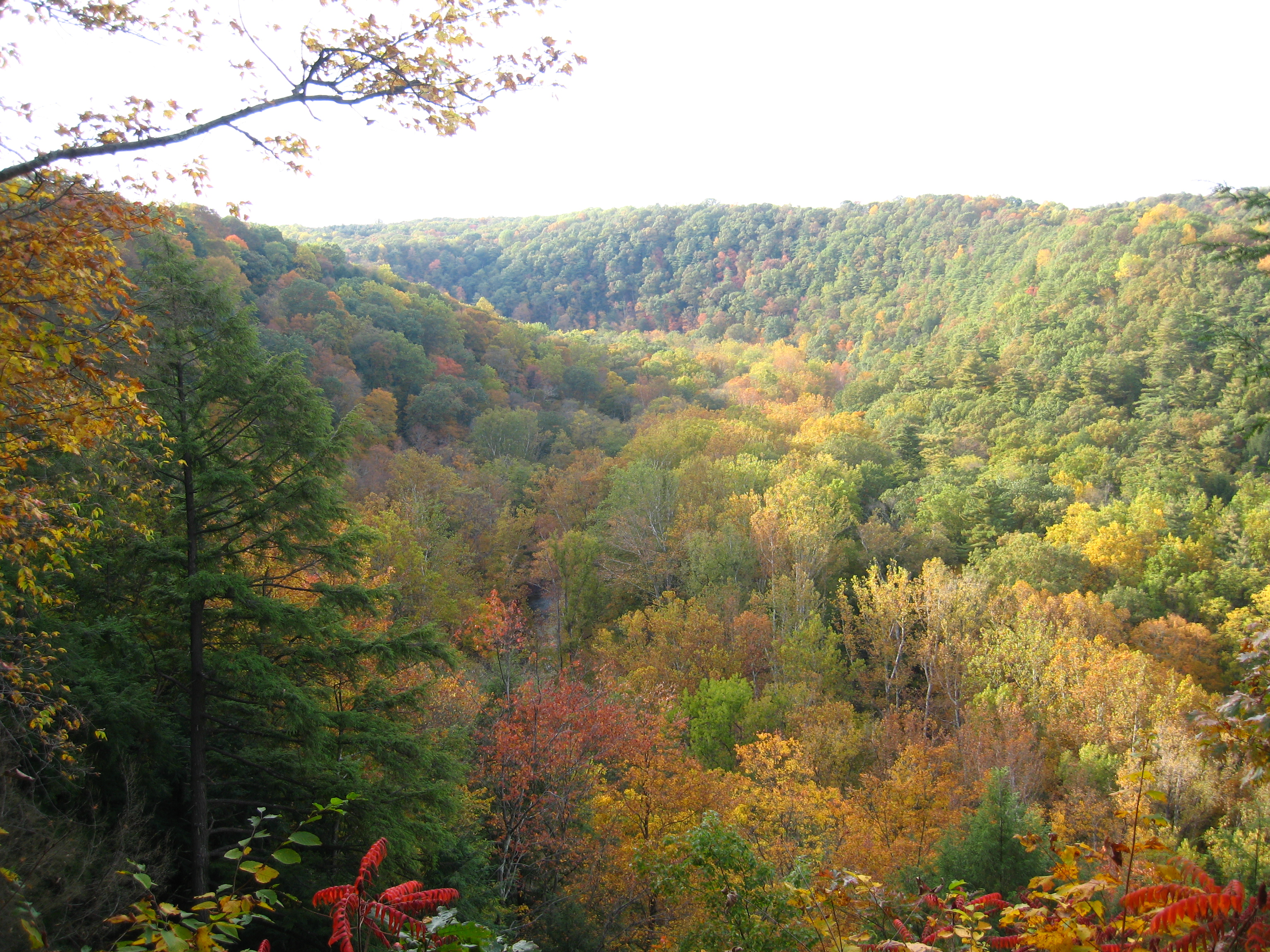 The Clear Fork of the Mohican River and the Clear Fork Gorge, as seen from Mohican State Park Gorge Overlook on October 13, 2008.